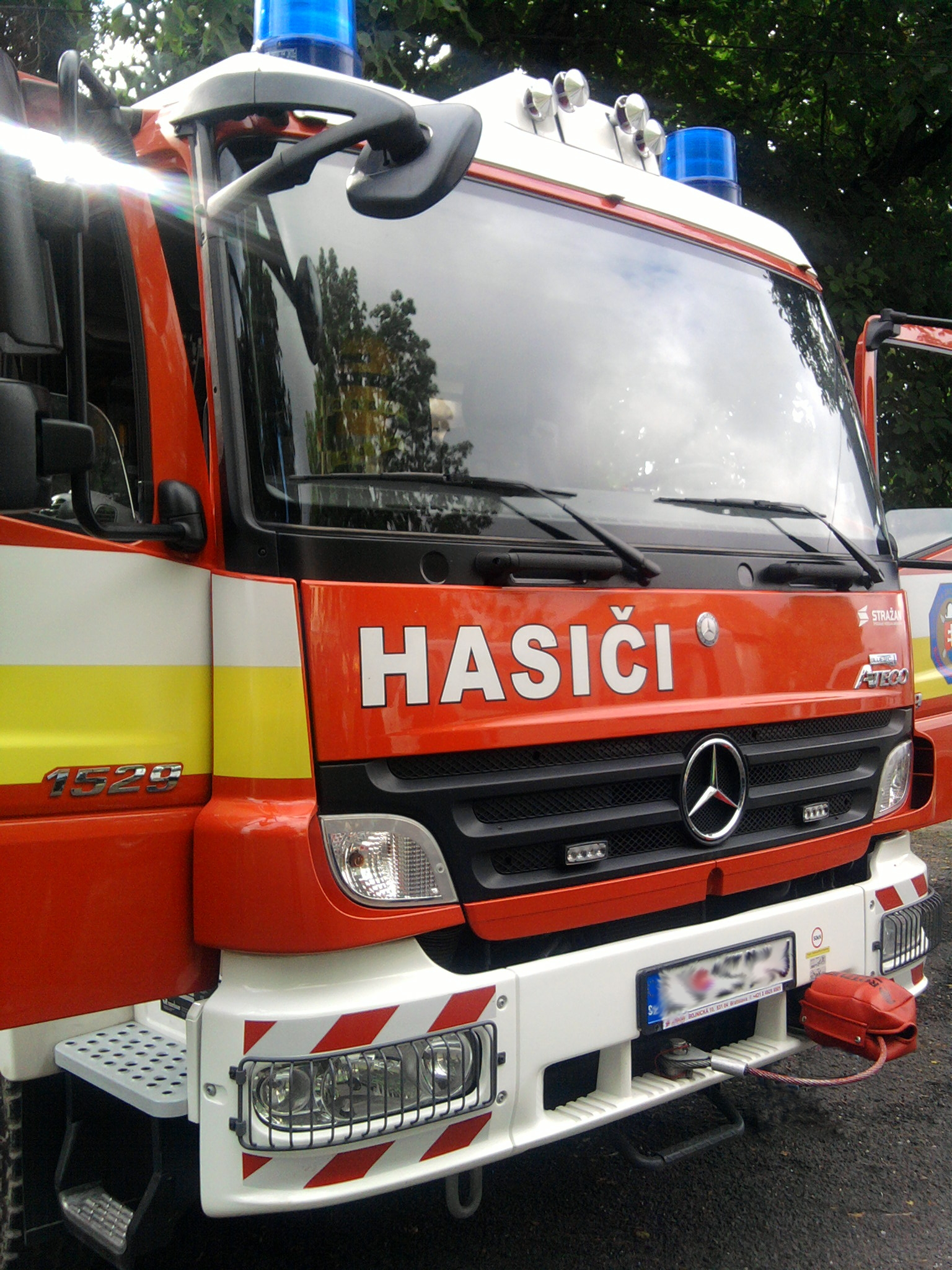 Mercedes-Benz Atego 1529, firefighting car , Slovakia